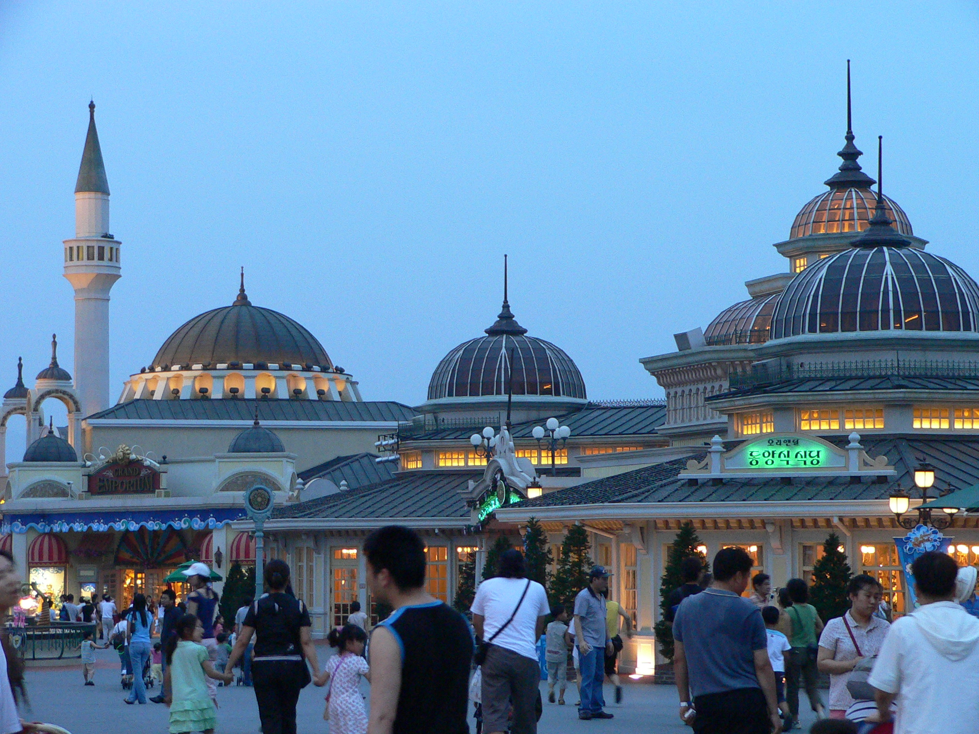 Everland, the biggest theme park of South Korea located in Yongin, Gyeonggi Province.